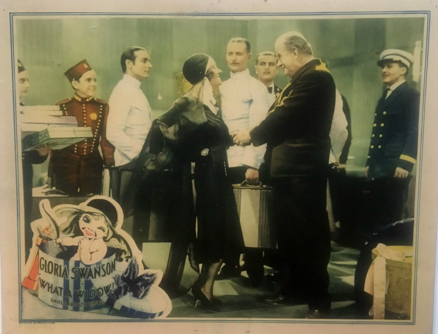 Lobby card for the American pre-Code romantic comedy film What a Widow! (1930).